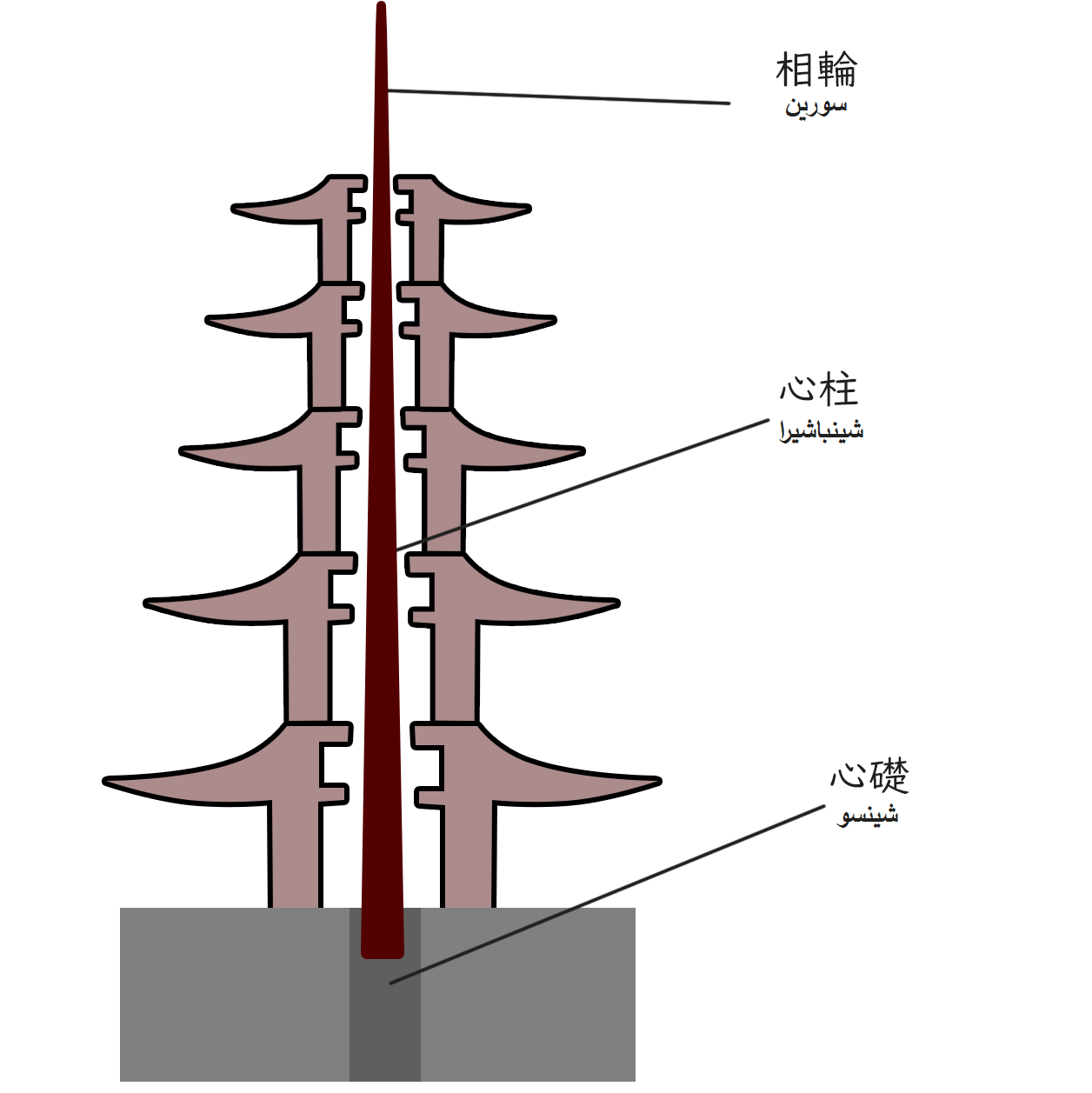 shinbashira of 5-story japanese pagoda